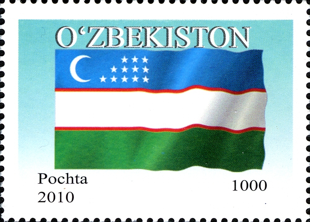 Stamps of Uzbekistan, 2010